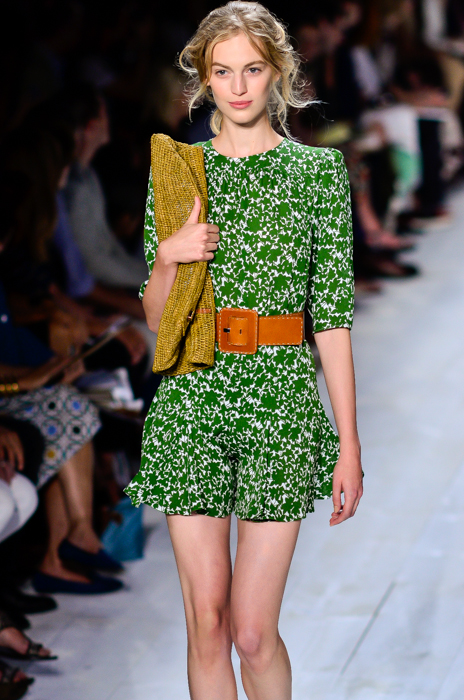 Model Vanessa Axente at the Michael Kors Spring/Summer 2014 fashion show on September 11, 2013 at New York Fashion Week. Photo by Christopher Macsurak.